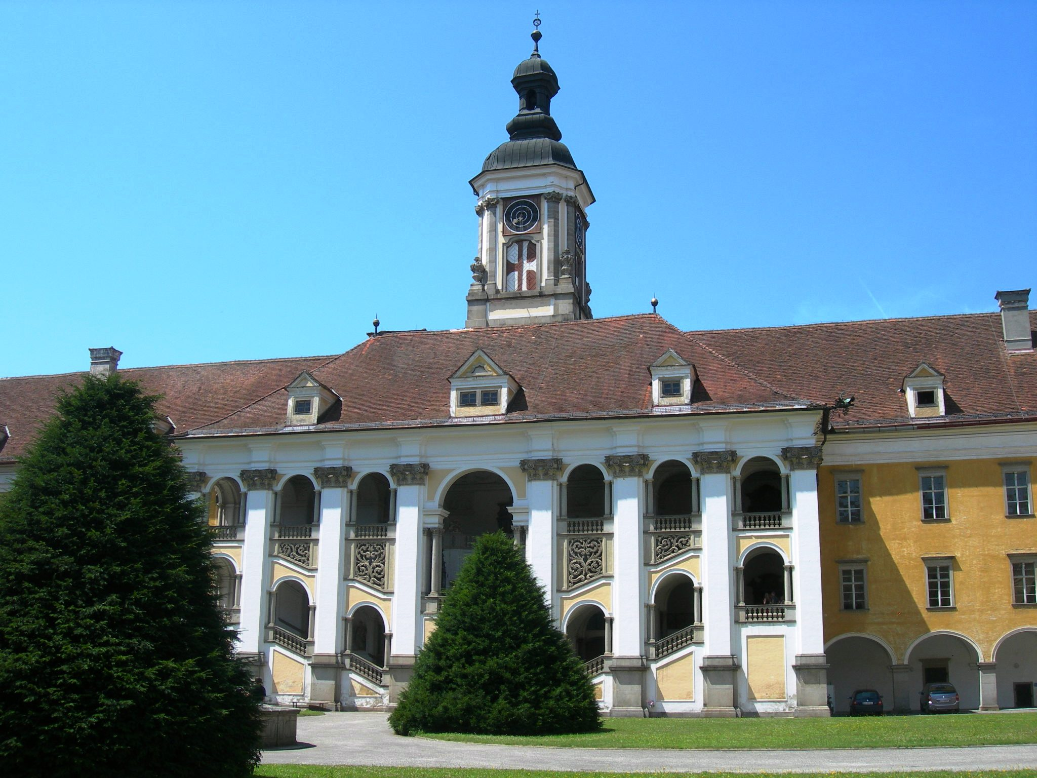 Stift Sankt Florian, staircase